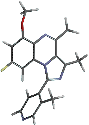 The compound is an inhibitor of phosphodiesterase 10A and was synthesized by Michael Malamas et al. in 2011. In the article, the compound is compound 96. The file was made with Spartan '10, and the equilibrium geometry was calculated with the PM3 semi-empirical model. The digital object identifier of the reference is